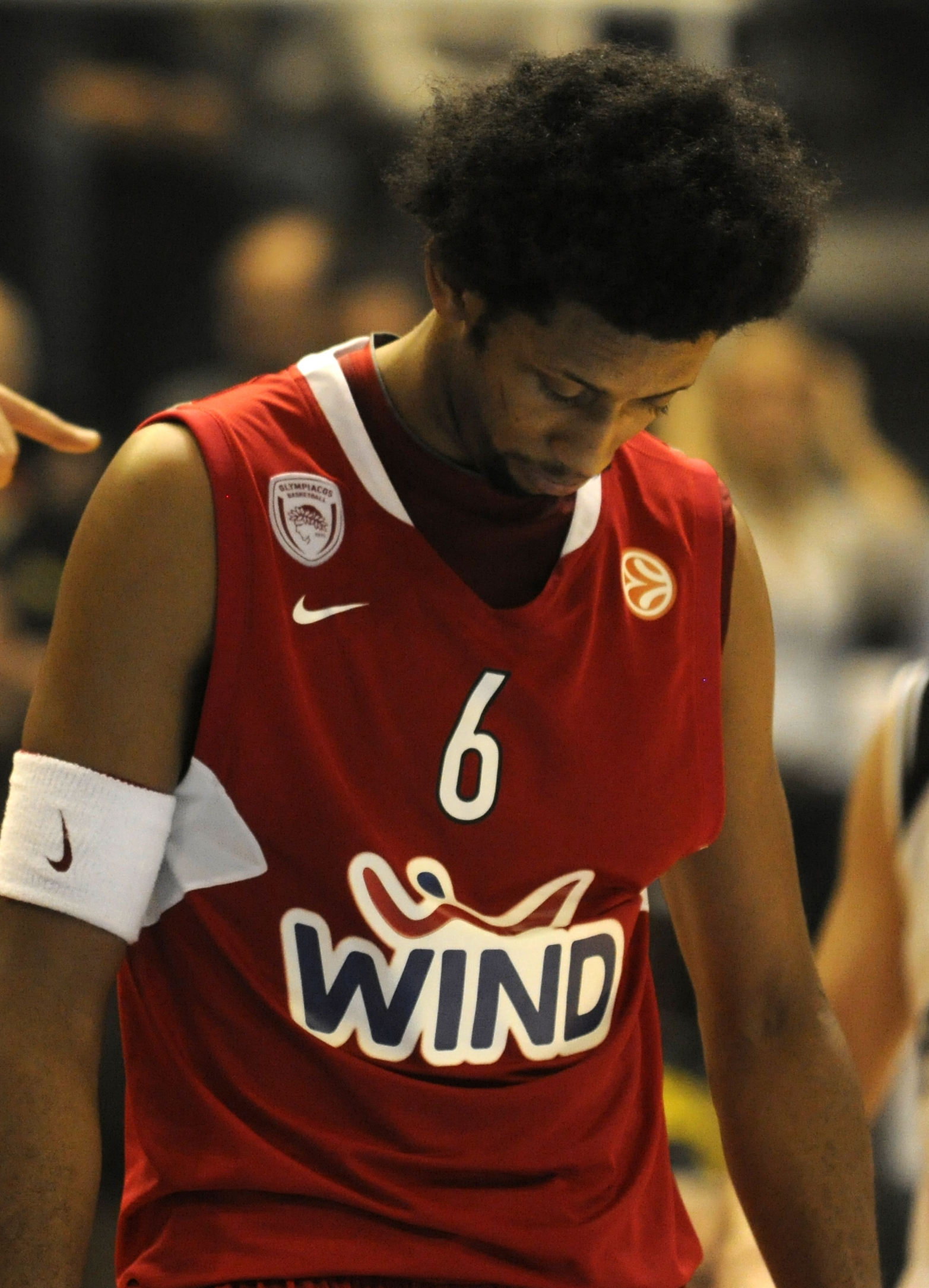 Josh Childress in action for Olympiacos (2009)